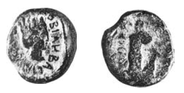 Lead token from Antioch mentioning Zenobia as queen from 268 AD.[1]